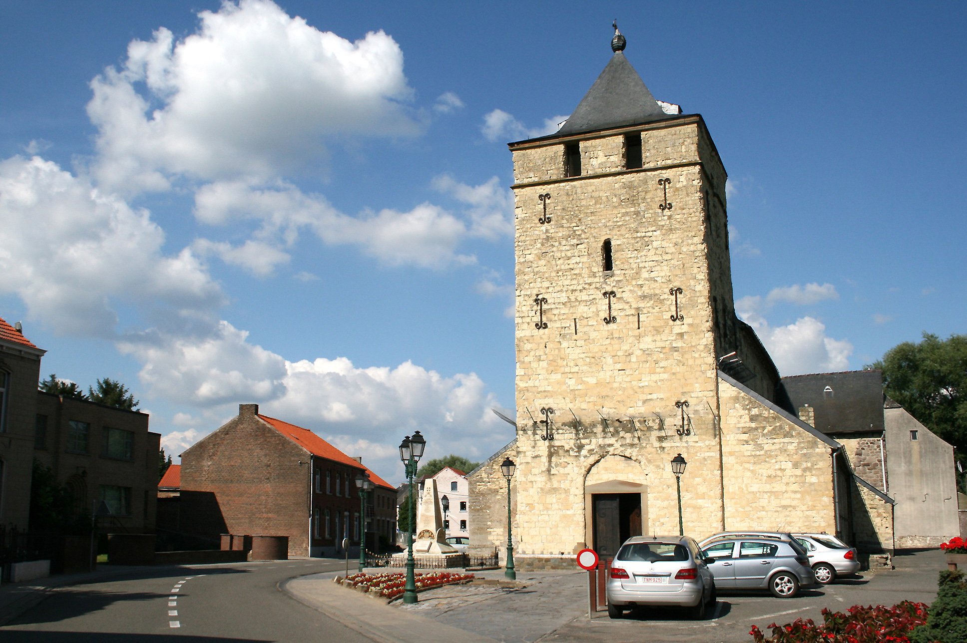 Neerheylissem (Belgium), the Saint Sulpice church (XIIth century). Walon: Éléssène (Bèldjike), l'èglîje Sint-Sulpice (XIIin.me sièke)